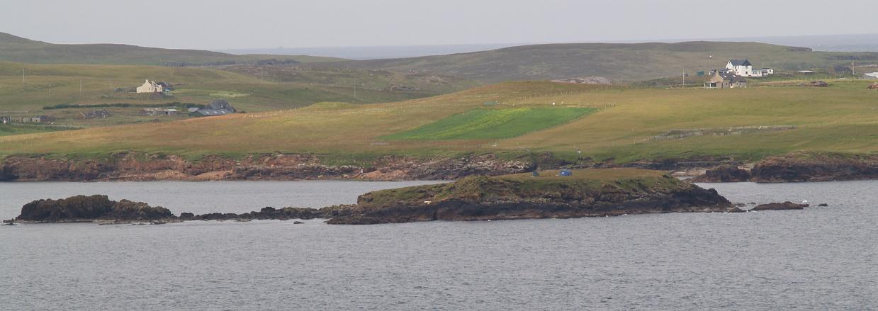 Forewick Holm (aka Forvik Island) Seen from the Neap of Norby, near Sandness. With Papa Stour in the background. The Holm became the centre of media attention when Stuart Hill declared the holm to be a Crown Dependency and renamed it Forvik Island.